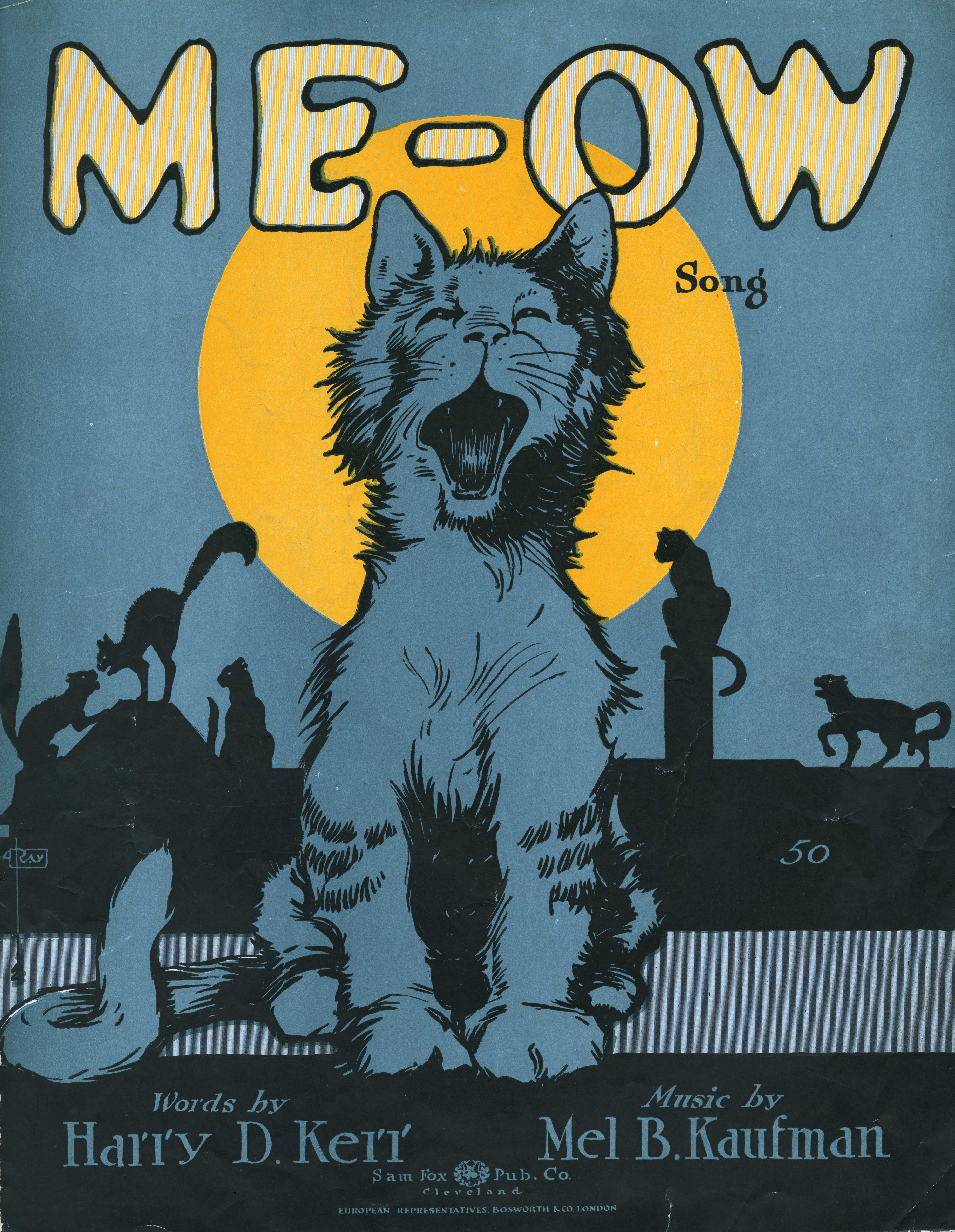 Me-ow Cover